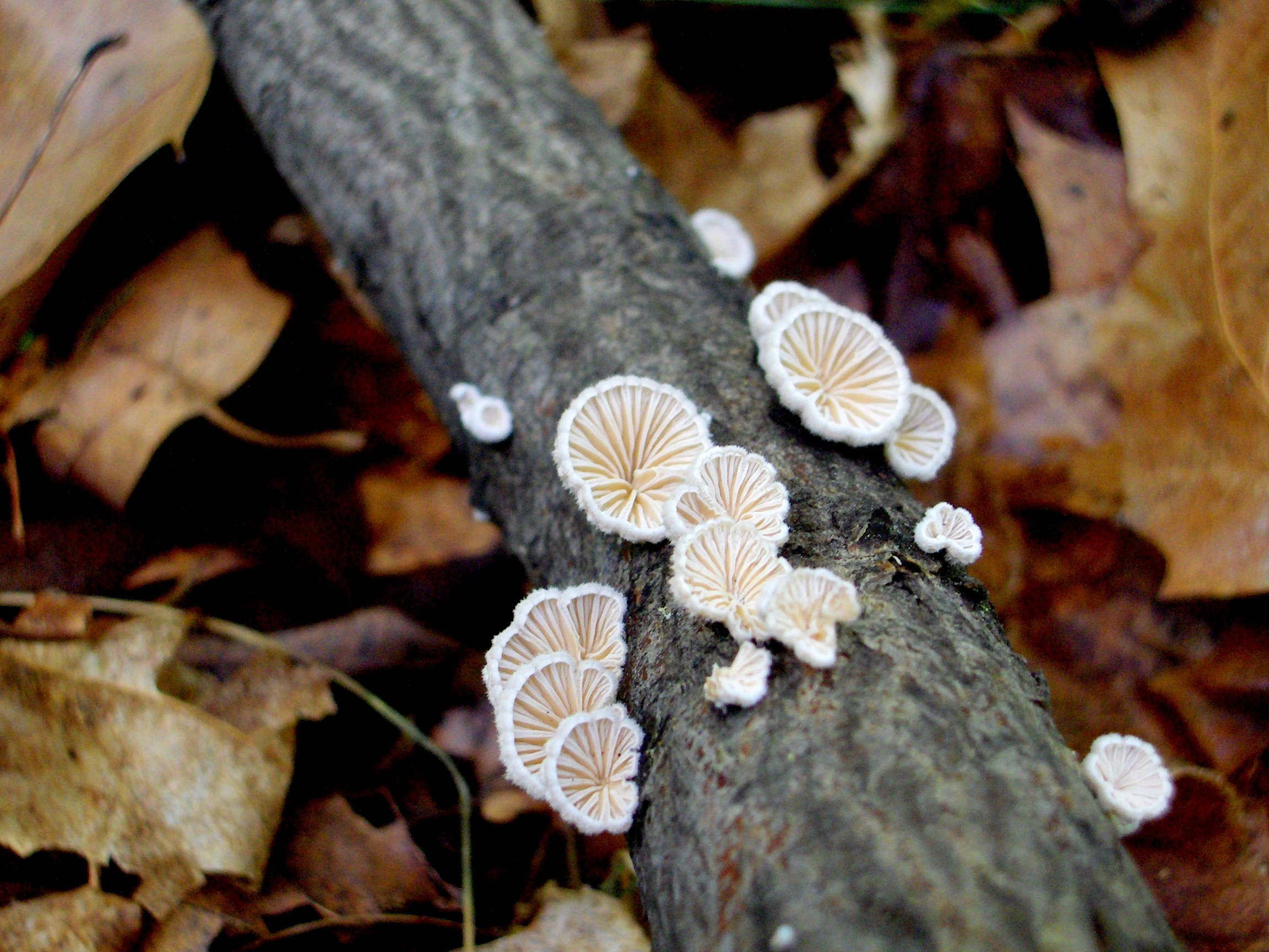 These omnipresent fungi are the common split gill, Schizophyllum commune. They look furry on the top. Flip them over and you can enjoy their lovely, well defined gills.